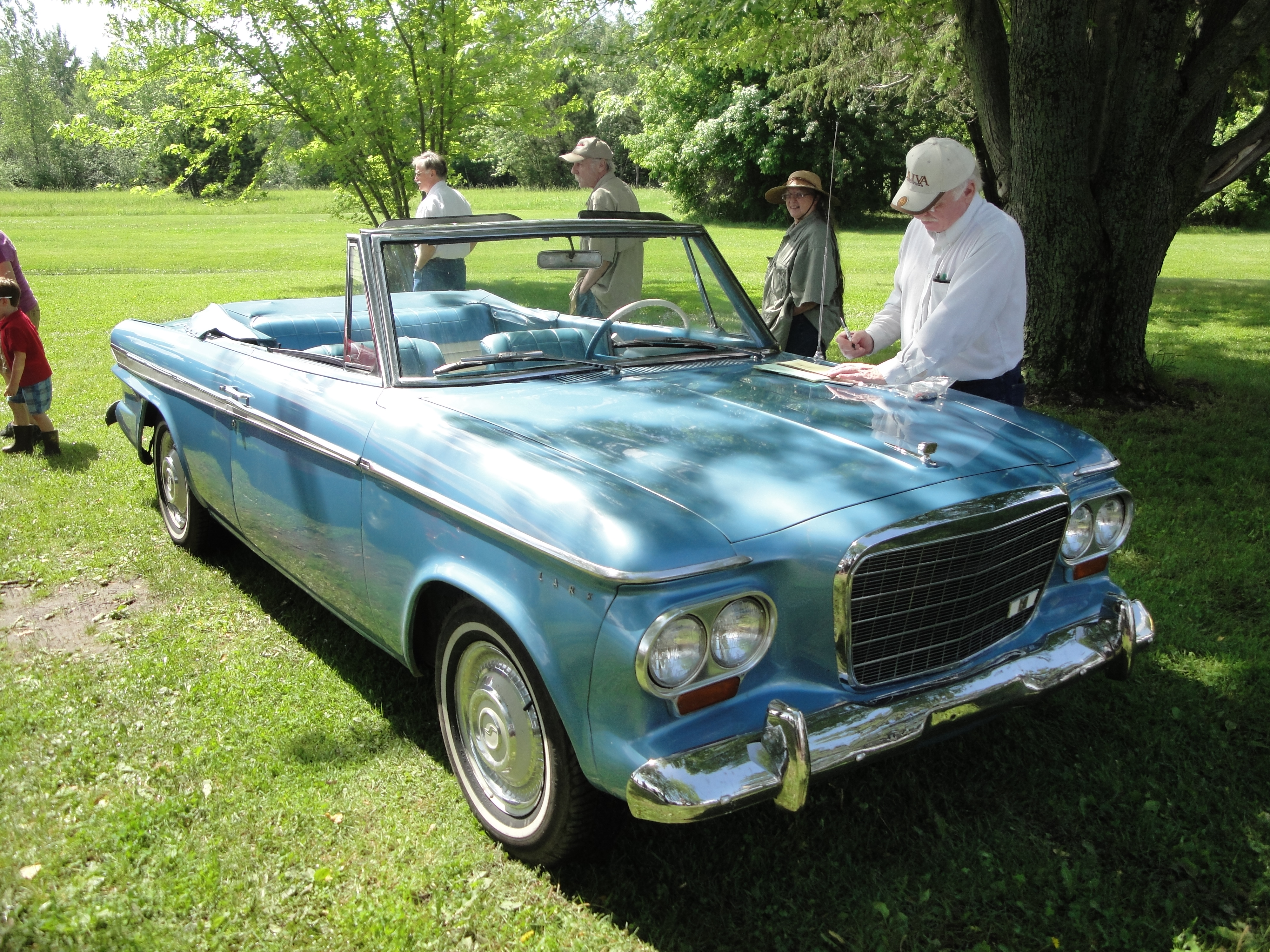 2012 Memorial Day Car Show Hosted by the North Star Chapter of the Studebaker Drivers Club